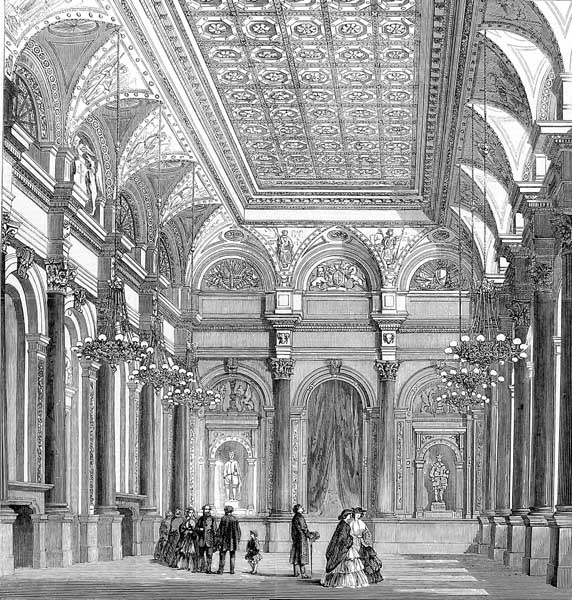 The banqueting hall of the Clothworkers' Company in the City of London.